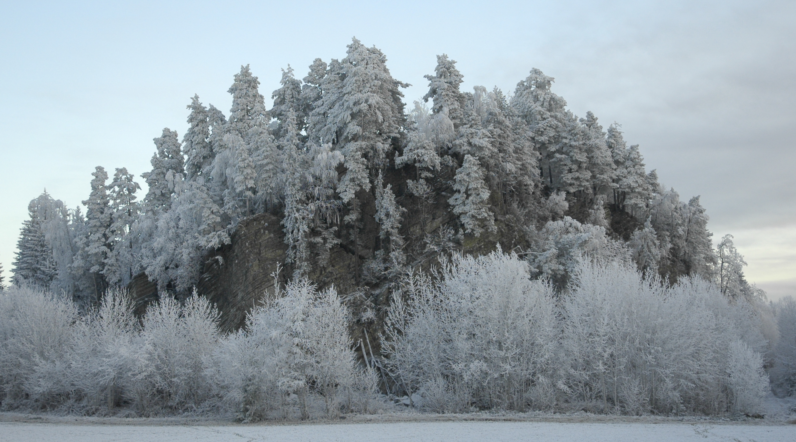 The frozen wood of the trolls. From Bødalen in Røyken, southern Norway, before Christmas 2007